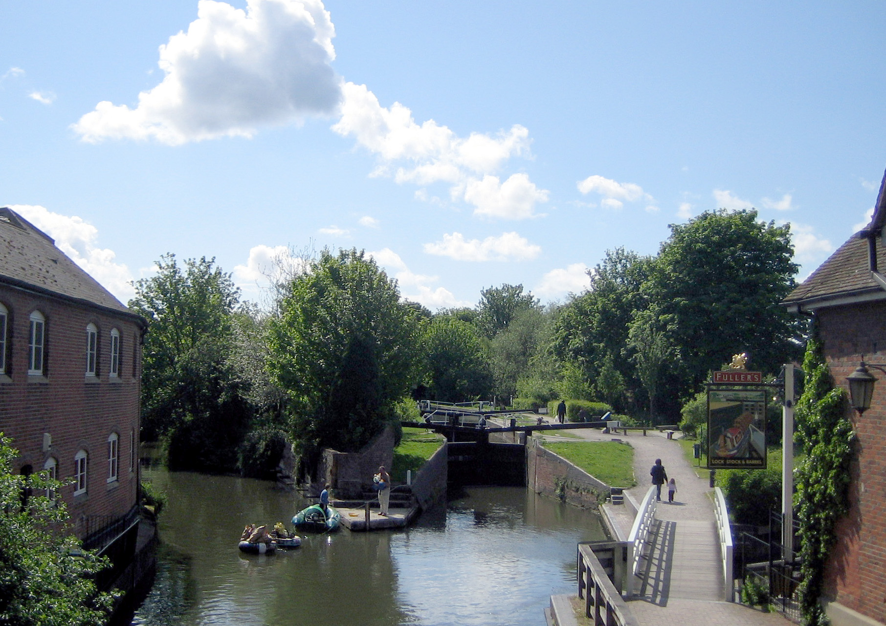 Kennet & Avon canal and the River Kennet in central Newbury.